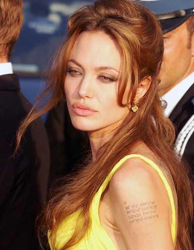 Angelina Jolie at the Cannes Film festival